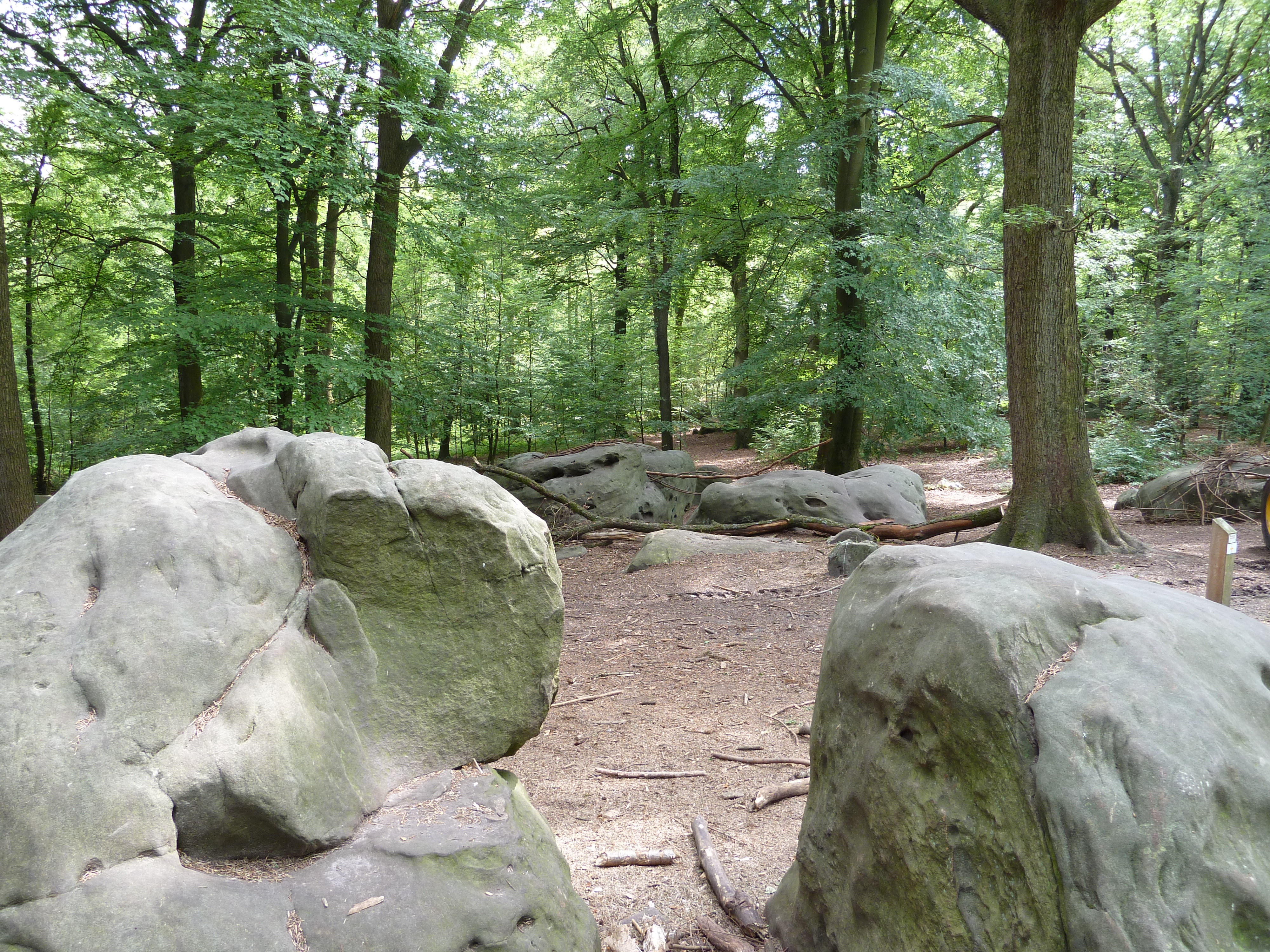 the Zyklopensteine, south of Aachen, Germany